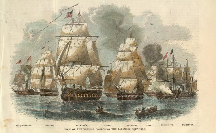 Commodore Perry's second fleet. Caption reads Susquehannah, Saratoga, Saint Mary's, Supply, Plymouth, Perry, Mississippi, Princeton-View of the vessels composing the Japanese squadron